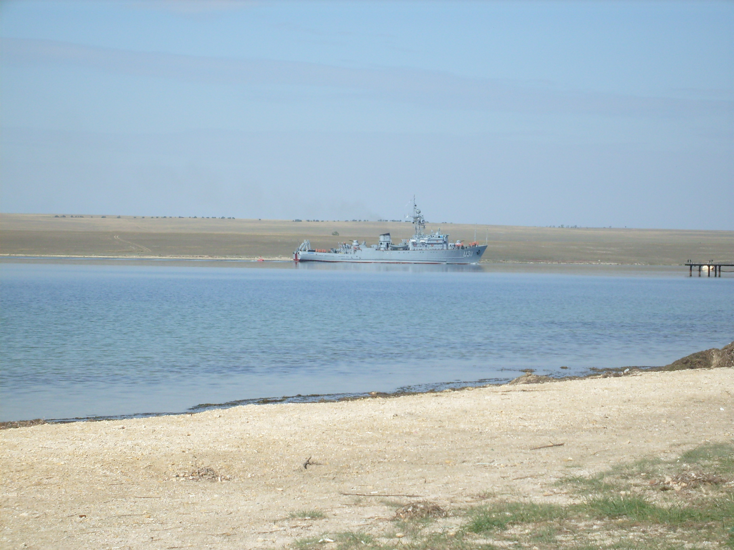 Novoozerno